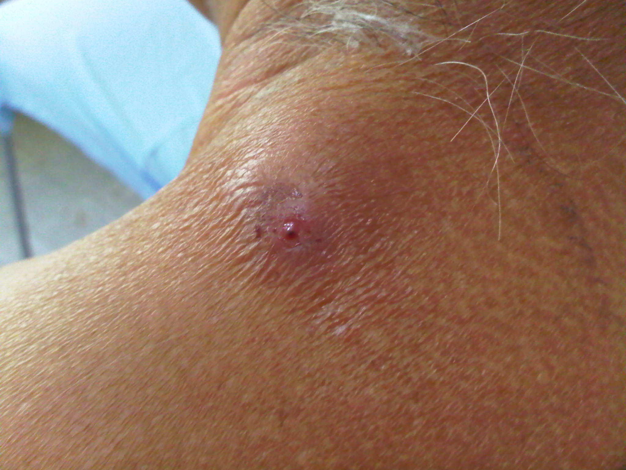 Cutaneous myiasis in the neck of a human